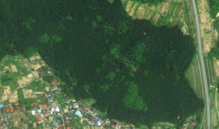 Satellite view